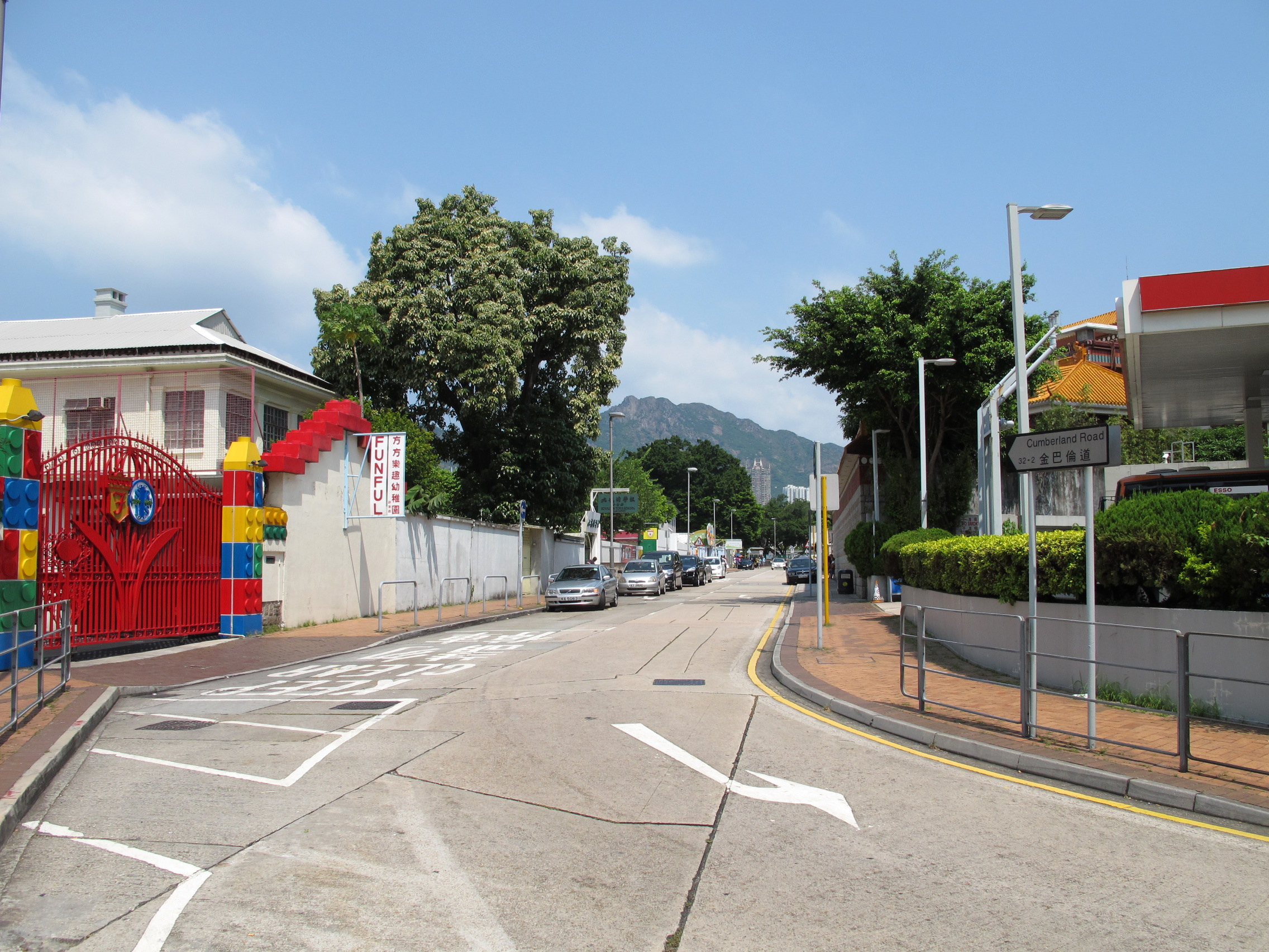 Cumberland Road, Kowloon Tong